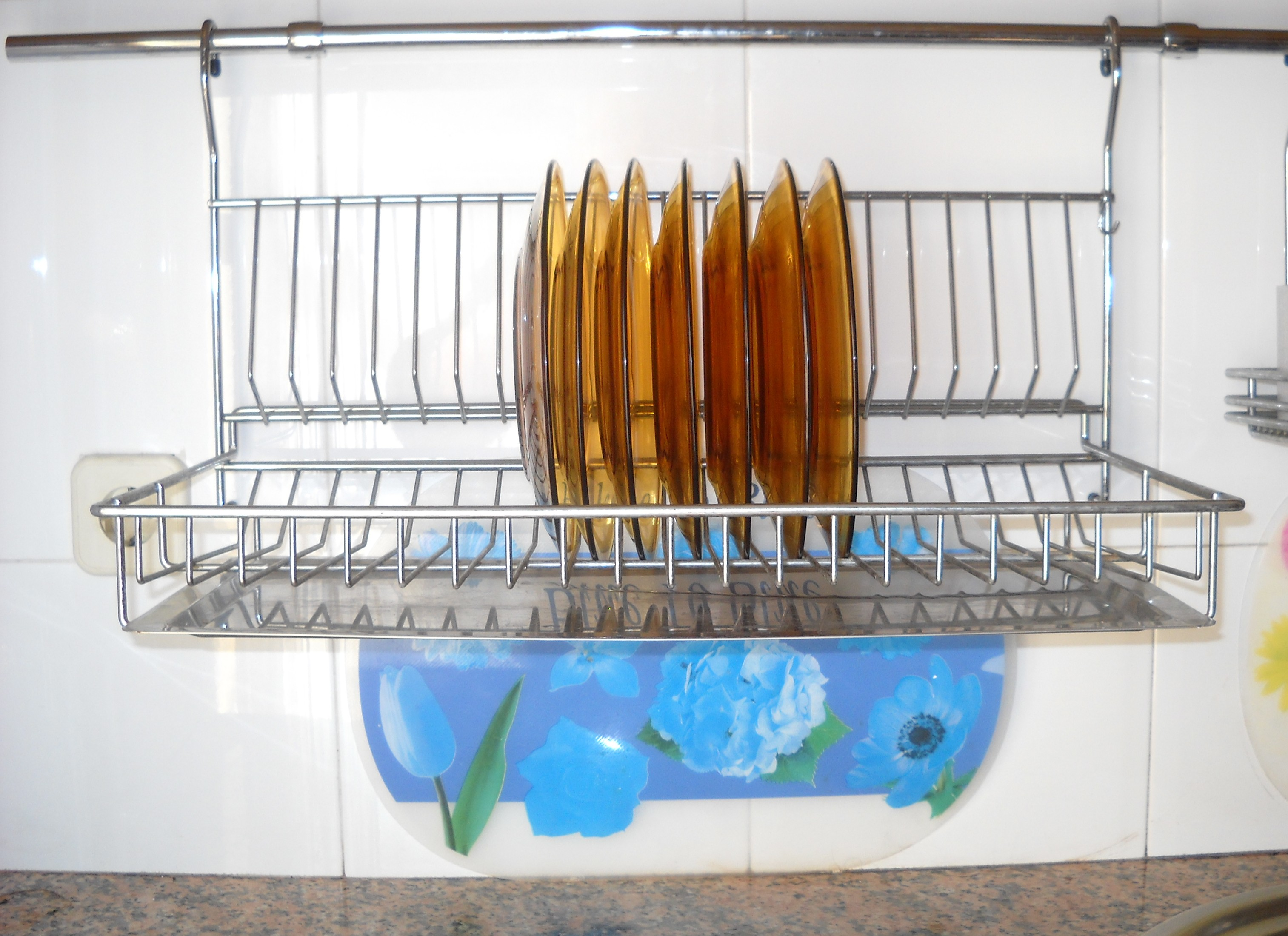 Escorreplats, dish-rack, dish-drainer